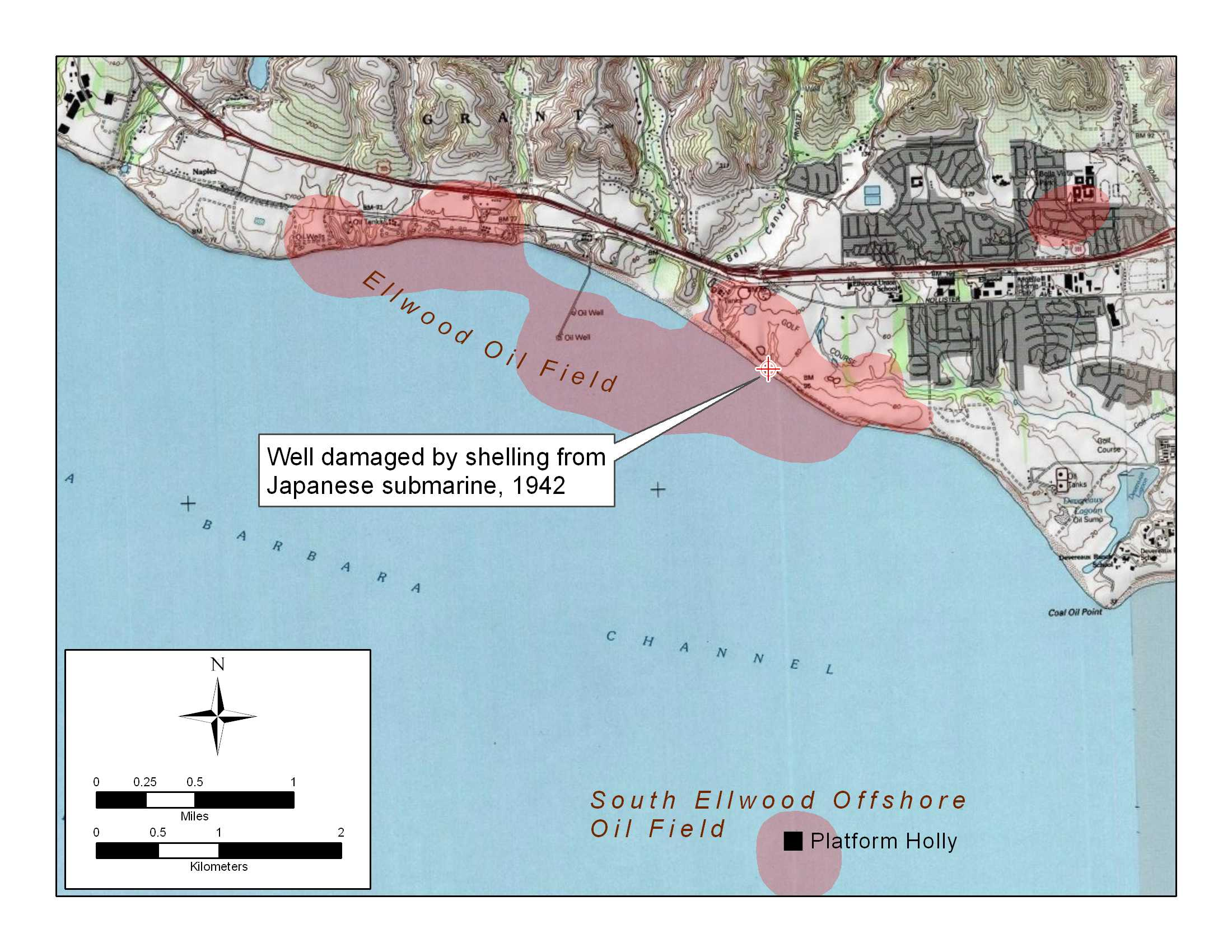 Detail map of Ellwood and Ellwood Offshore Oil Field, showing location of Luton-Bell Well No. 17, damaged by Japanese shelling 23 Feb 1942